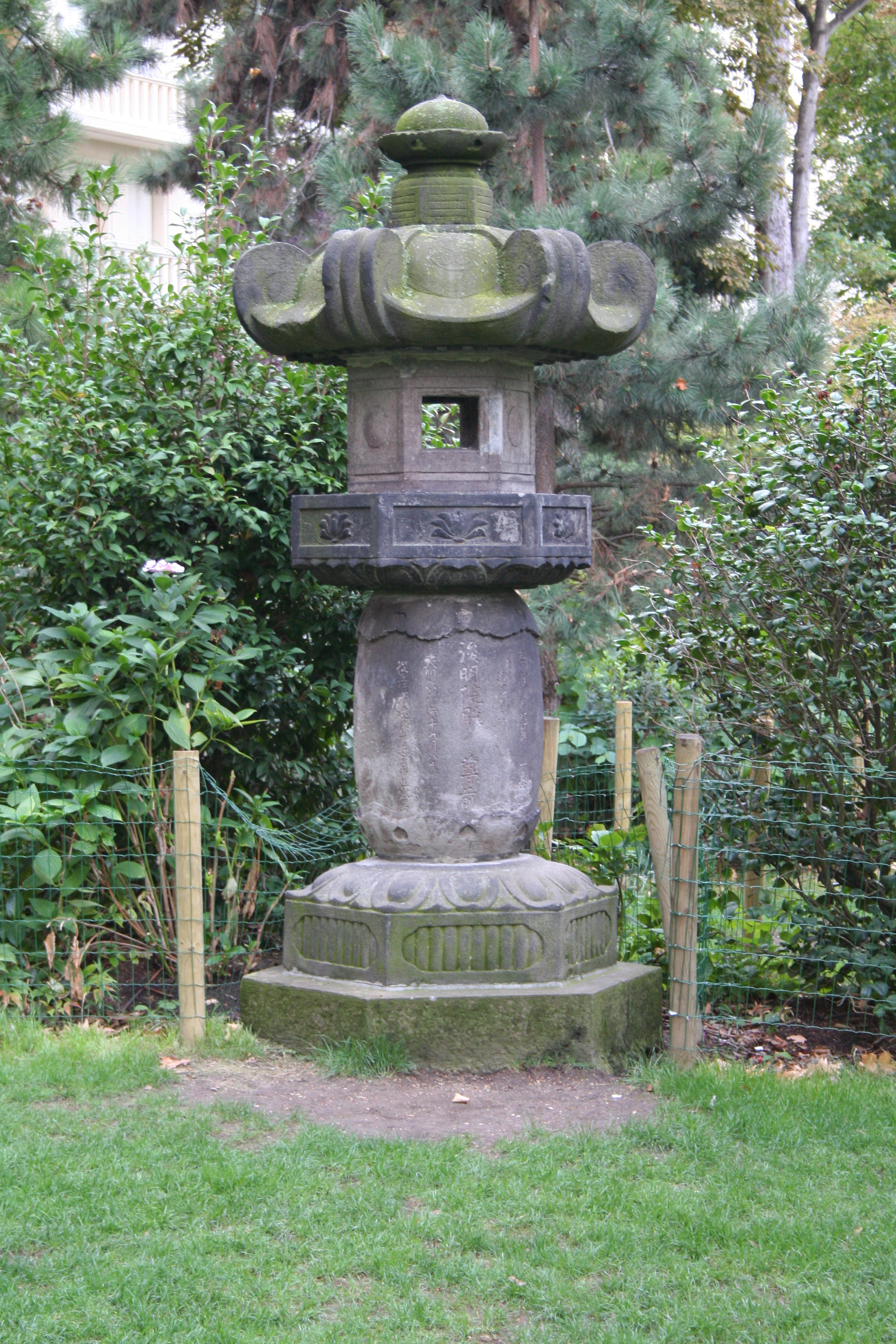 Parc Monceau (Paris, France)